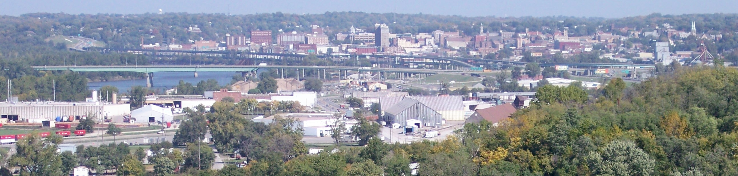 Saint Joseph, Missouri as viewed from the south, from King Hill Overlook. The Missouri River and the Pony Express Bridge can be seen at left.